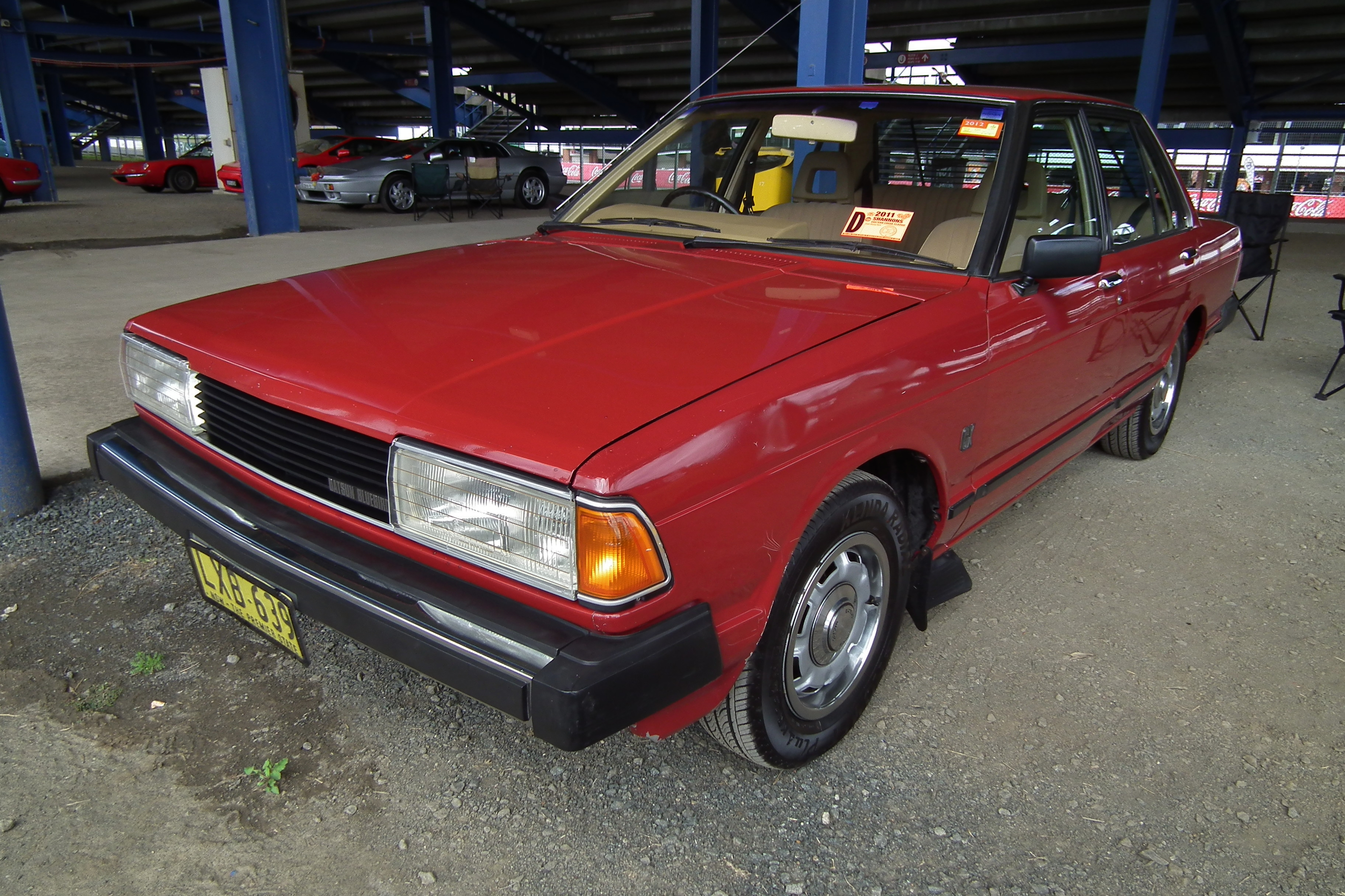 1982 Datsun Bluebird 910 GX sedan. Taken at Shannon's Eastern Creek Classic 2011, held at Eastern Creek Raceway Sydney.